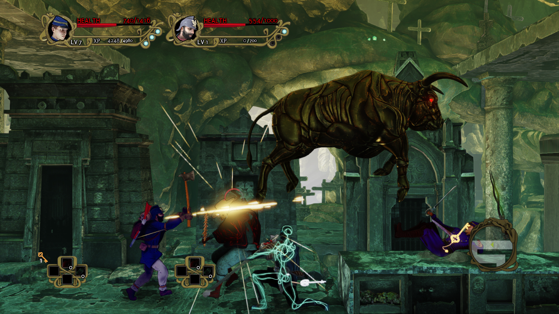 Abyss Odyssey screenshot. Released in 2014, the game was developed by ACE Team and is powered by Unreal Engine 3.